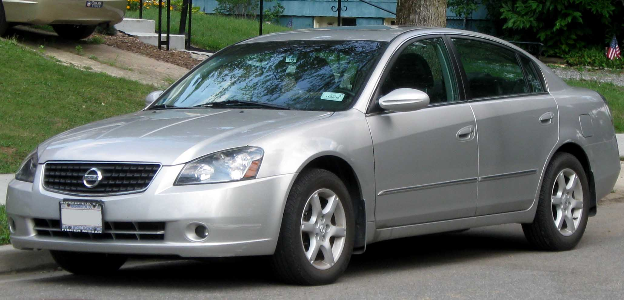 2005-2006 Nissan Altima photographed in Washington, D.C., USA.